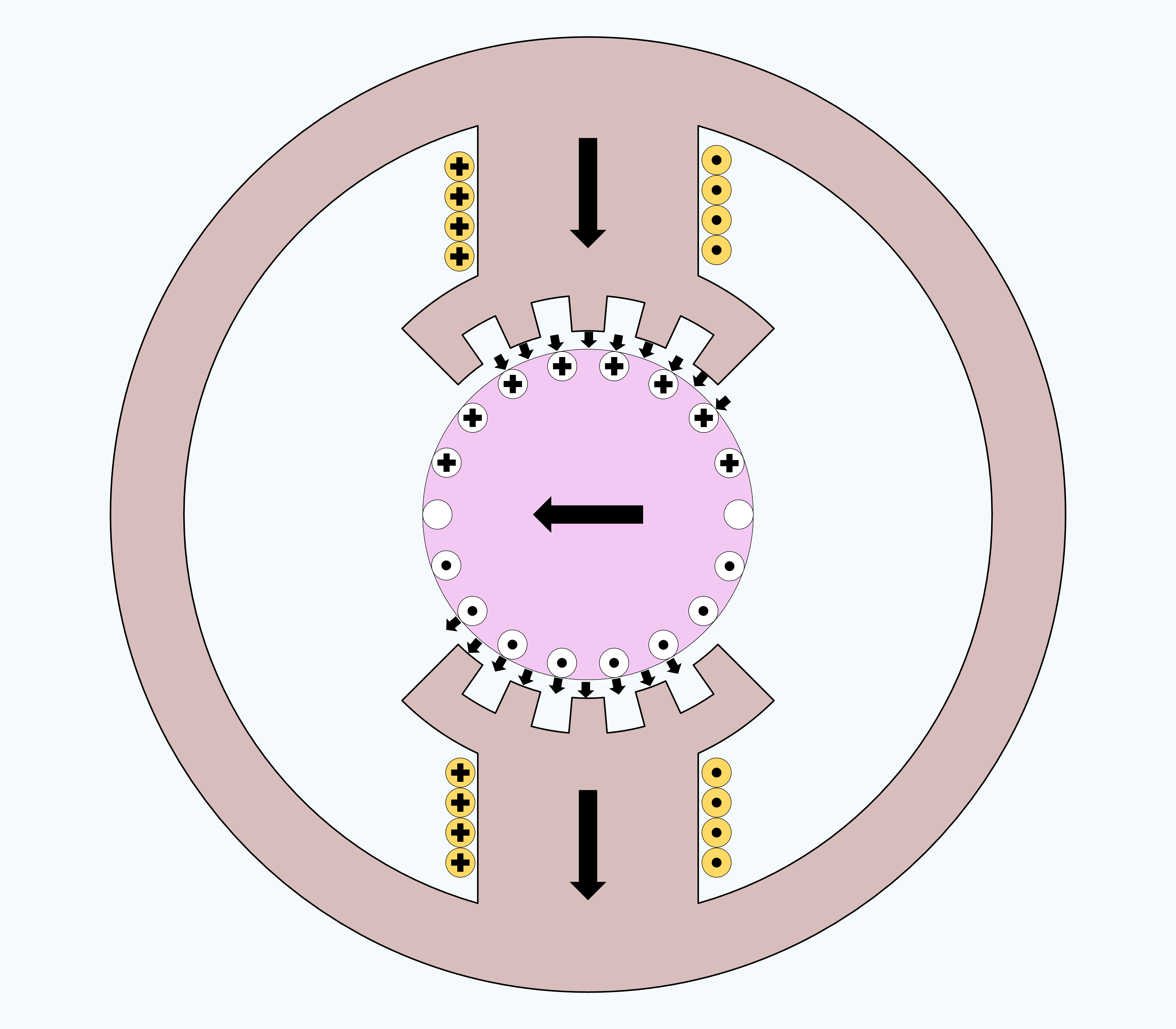 Cross section of DC motor with compensation windings showing magnetic flux due to field and armature under heavy load.